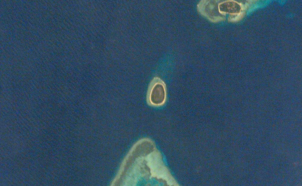 Robert Island, Paracel Islands. Photo number: ISS004-E-7150. Image courtesy of the Image Science & Analysis Laboratory, NASA Johnson Space Center